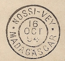 Postmark of the French post office at Nossi-Vey (now Nosy Ve), Madagascar